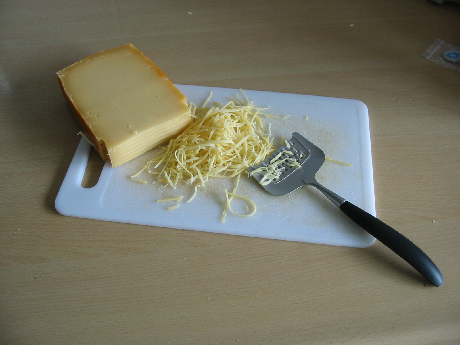 Cheese grater with cheese. Mark of the grater is Boska Holland. The cheese is a type of Milano.